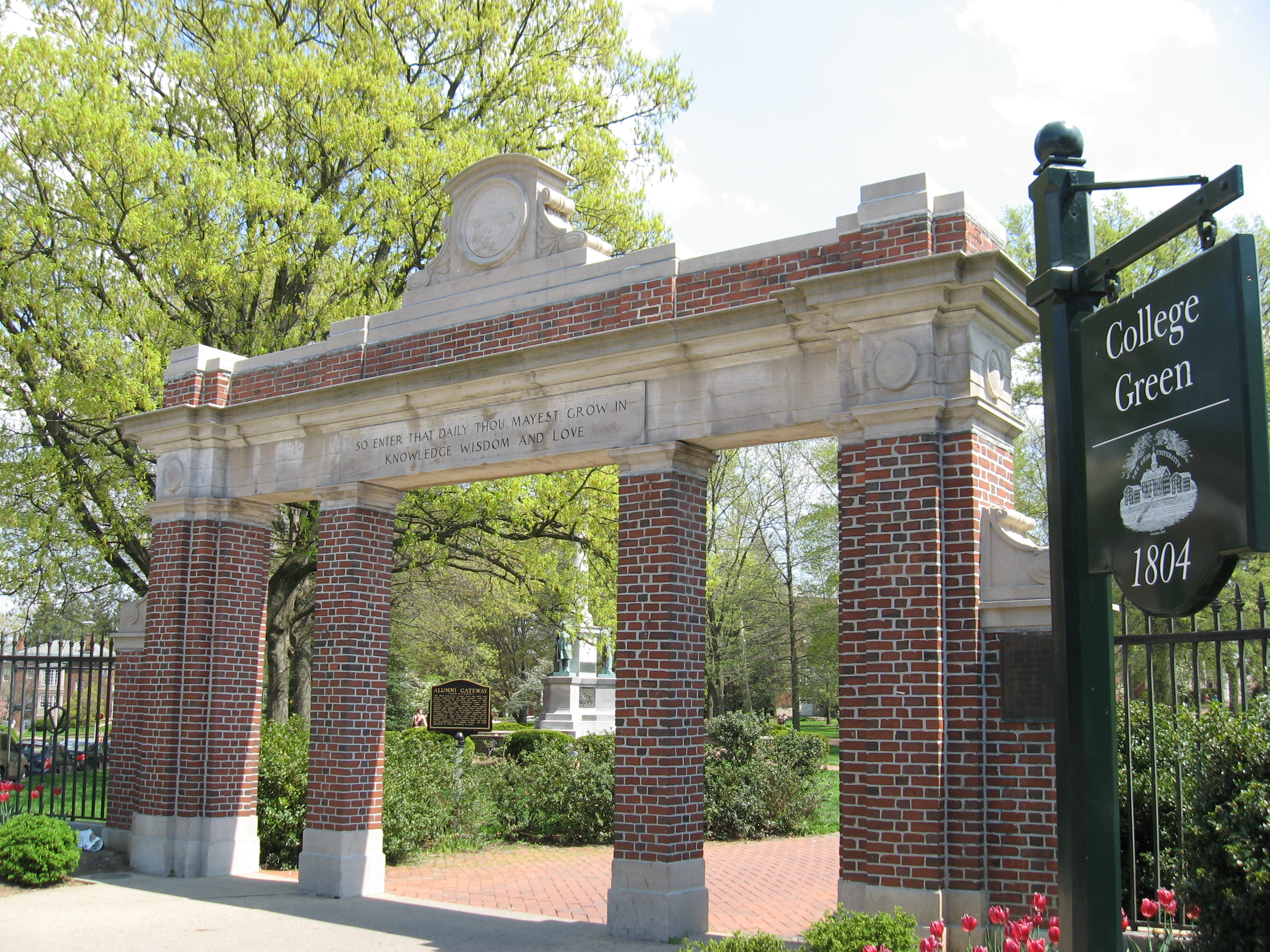 The University Gateway at Ohio University (Athens, Ohio, USA)